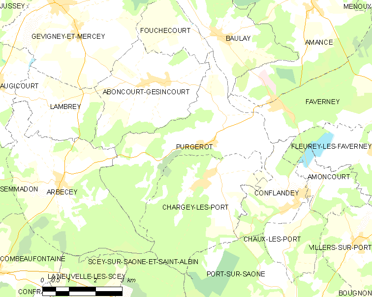 Map of French municipality